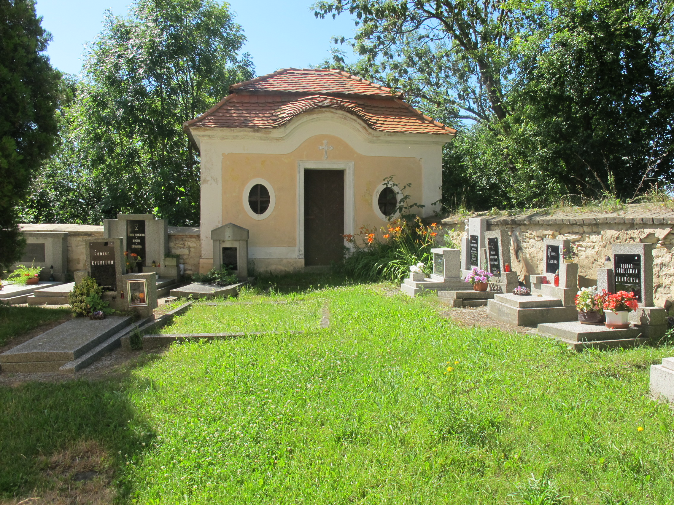 Morgue by the church in Orasice